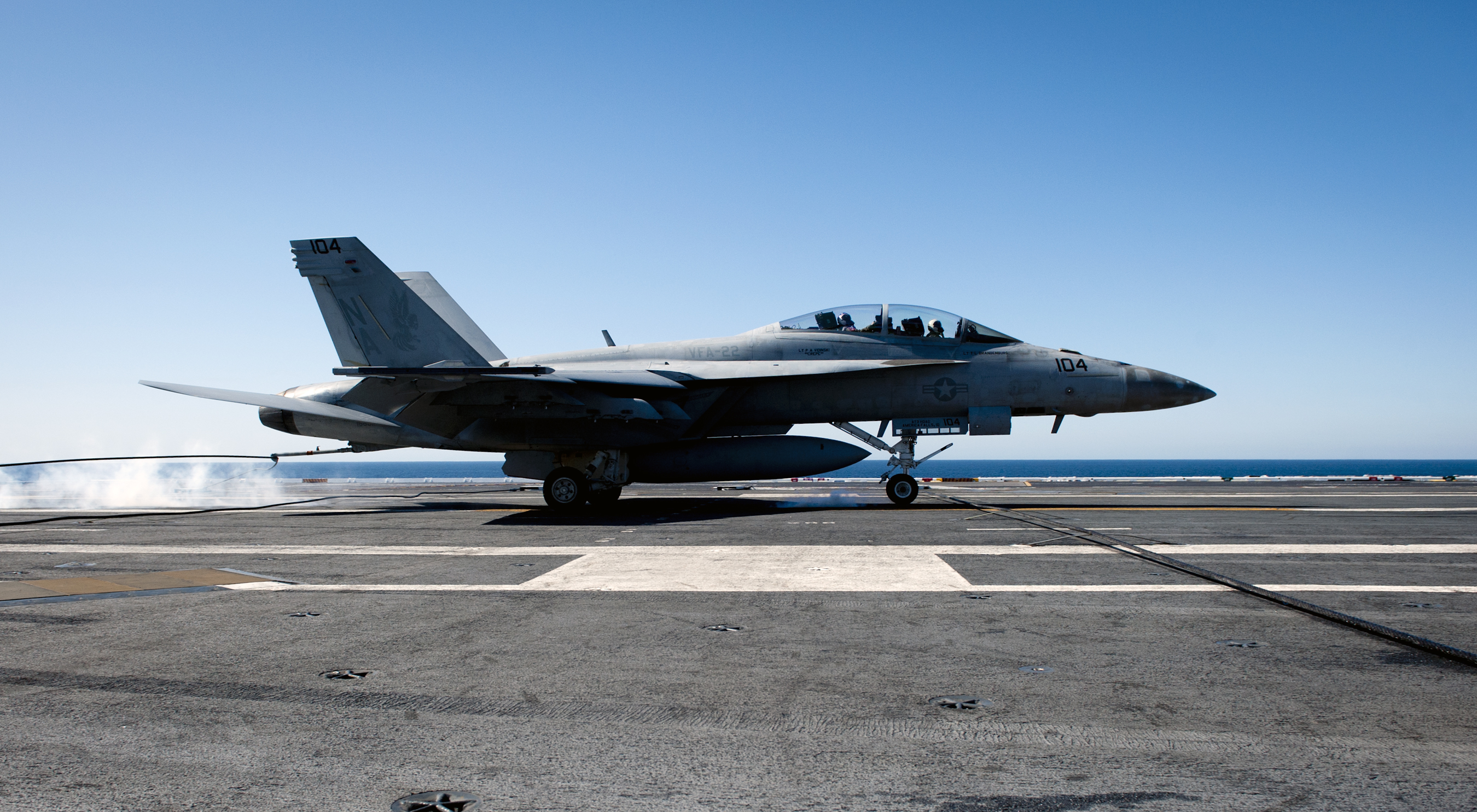 A U.S. Navy Boeing F/A-18F Super Hornet from Strike Fighter Squadron VFA-22 "Fighting Redcocks" makes the first arrested landing aboard the aircraft carrier USS Carl Vinson (CVN-70) since the completion of a six-month planned incremental availability (PIA) in the Pacific Ocean on 12 February 2013. The Carl Vinson was underway conducting Precision Approach Landing System (PALS) and flight deck certifications. VFA-22 is assigned to Carrier Air Wing 17 (CVW-17). Note the change of the tail code of CVW-17 from "AA" (used 1966-2012) to "NA".